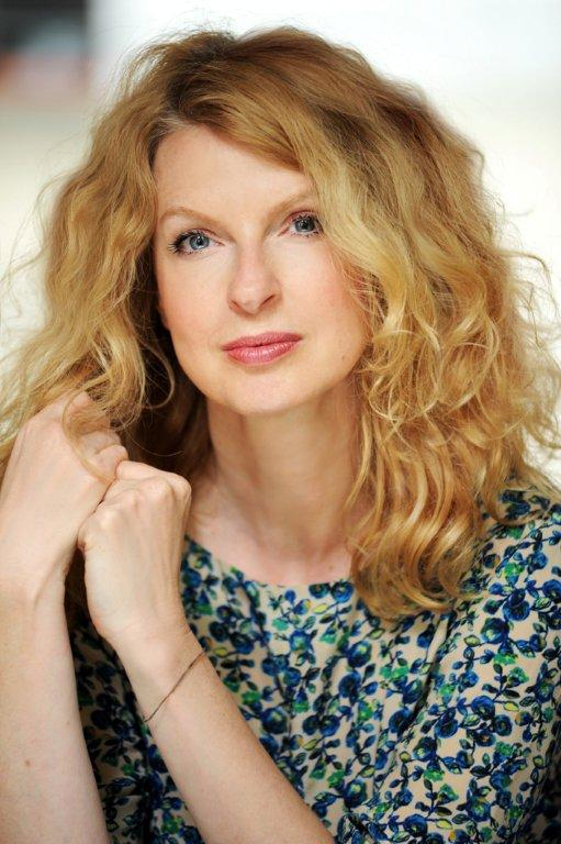 Heike-Melba Fendel, founder, owner and general manager of Barbarella Entertainment Agency, Cologne, Germany